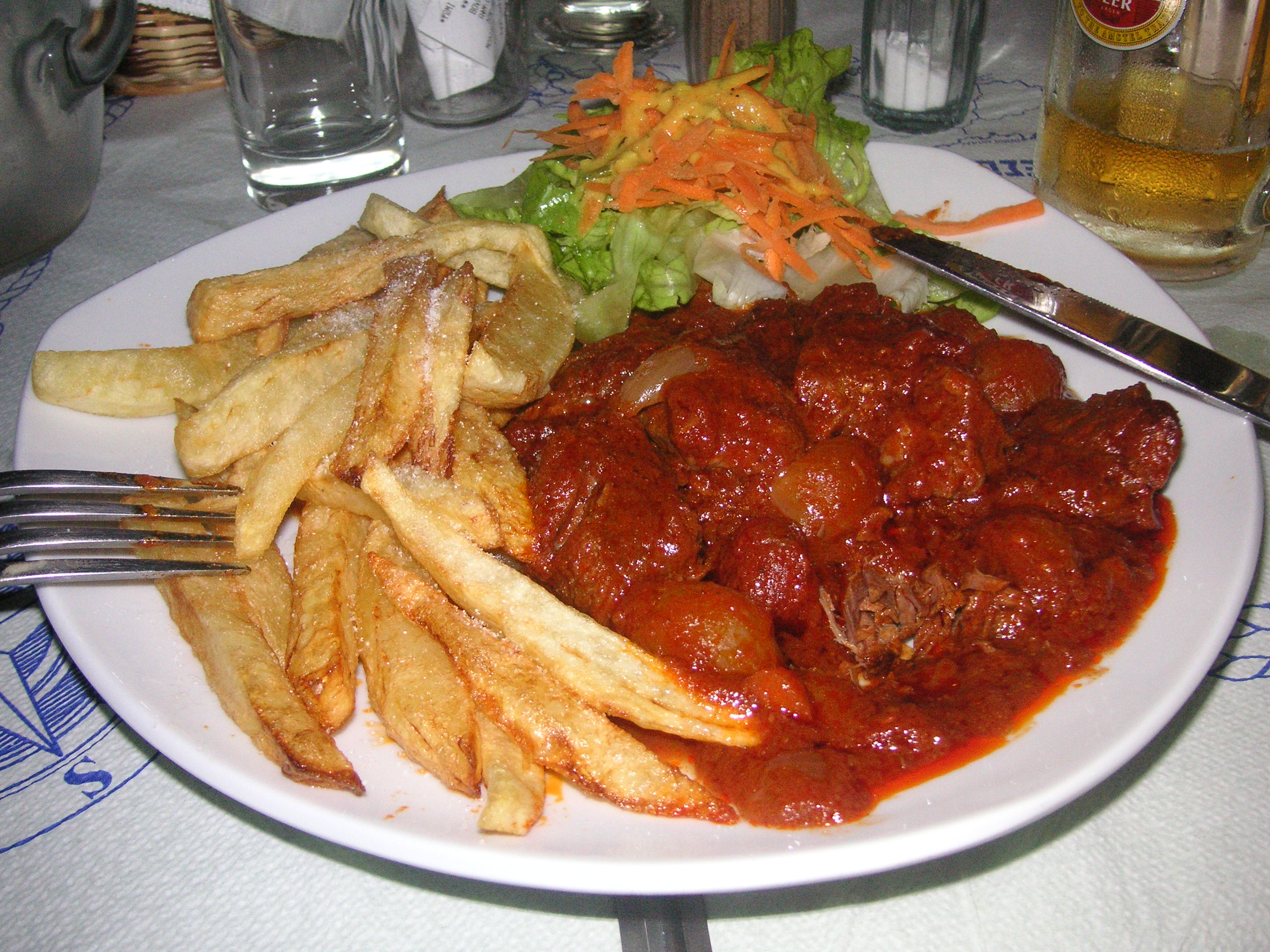 Stifado, served in a restaurant in Molyvos, Lesbos, Greece.